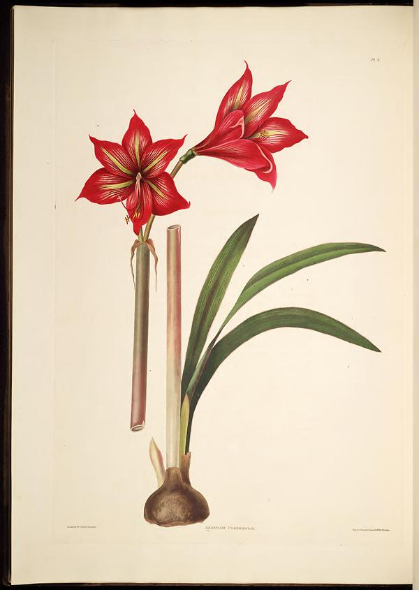 A selection of Hexandrian plants, belonging to the natural orders Amaryllidae and Liliacae /from drawings by Mrs. Edward Bury, Liverpool ; engraved by R. Havell.